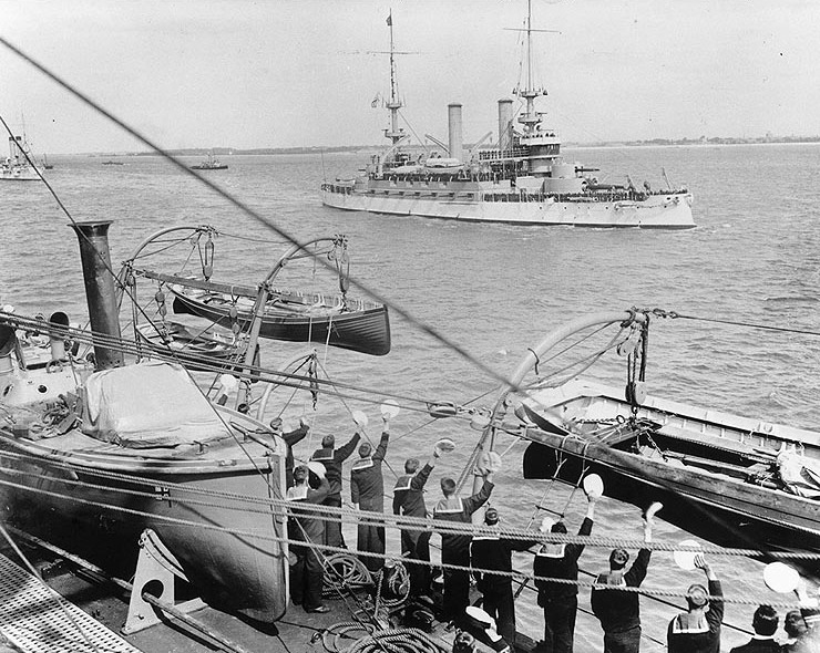 U.S. Naval Historical Center Photograph. Sailors on an unidentified British battleship cheer the US battleship Kearsarge at Spithead, July 1903. The Naval Historical Center caption identifies the ship in the upper left background as the US cruiser Chicago, and points out the steam picket boat and the pulling boats of the British battleship.